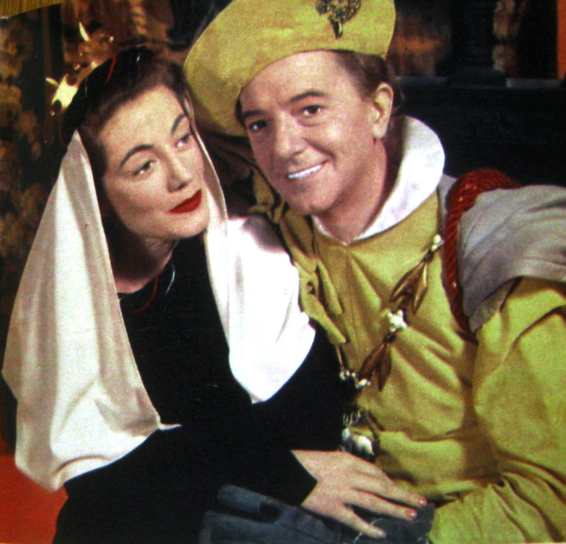 Photo of Sarah Churchill and Maurice Evans from the Hallmark Hall of Fame presentation of Richard II.